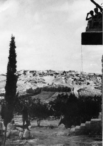 View of Sar'a 1948. Members of Harel Brigade on Mukhtar's balcony.